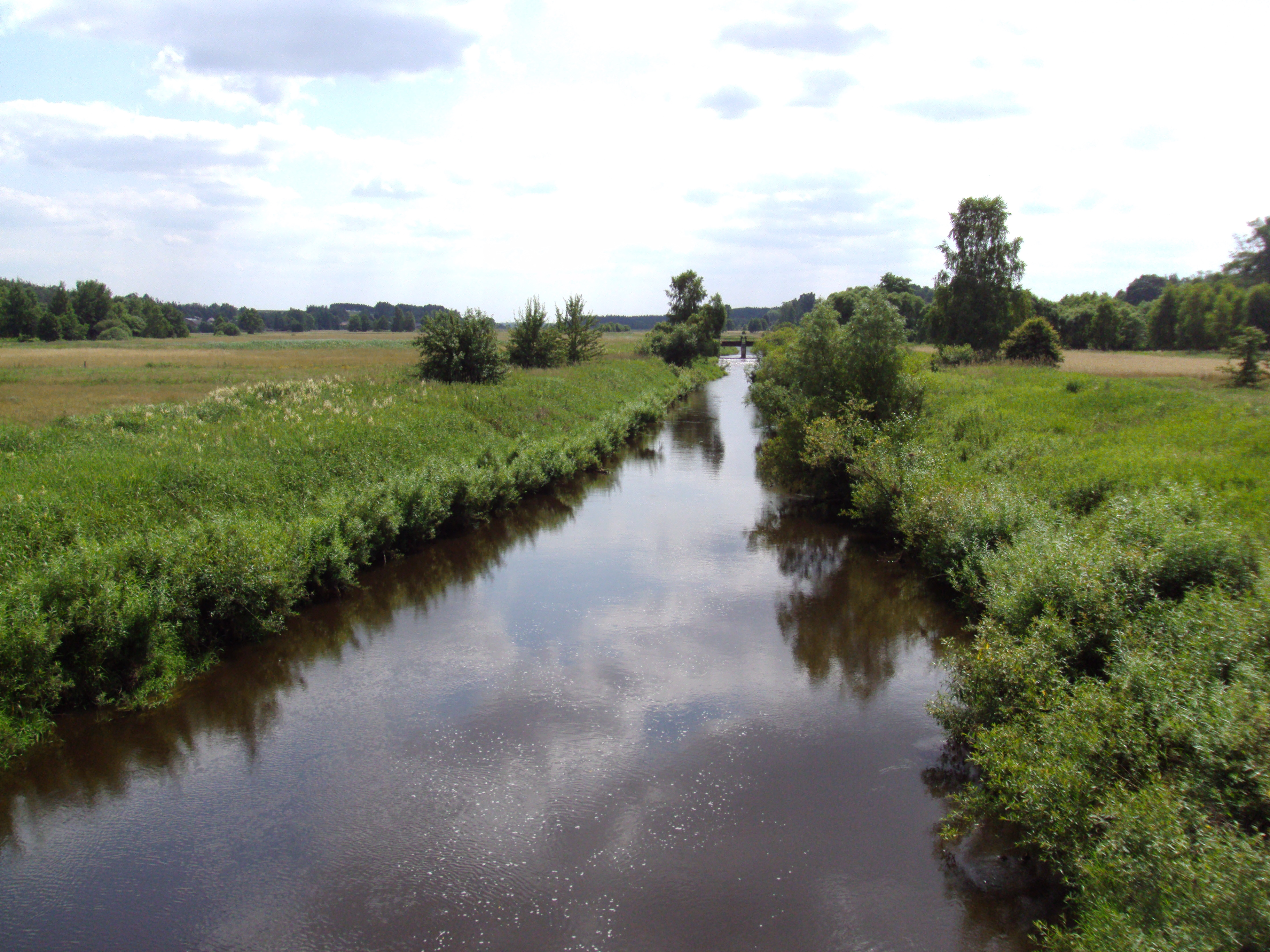 Liswarta w Podłężu Szlacheckim. Granica województw: opolskiego i śląskiego.